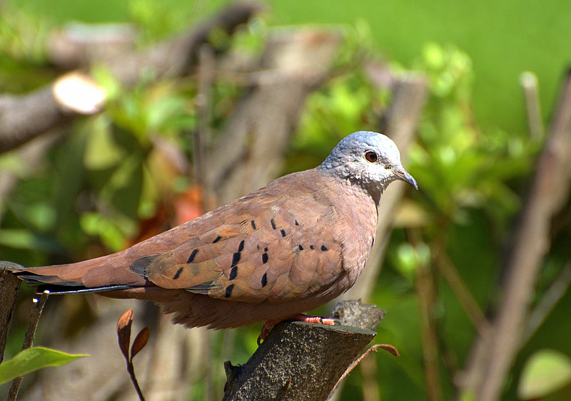 A Ruddy Ground-dove (Columbina talpacoti)